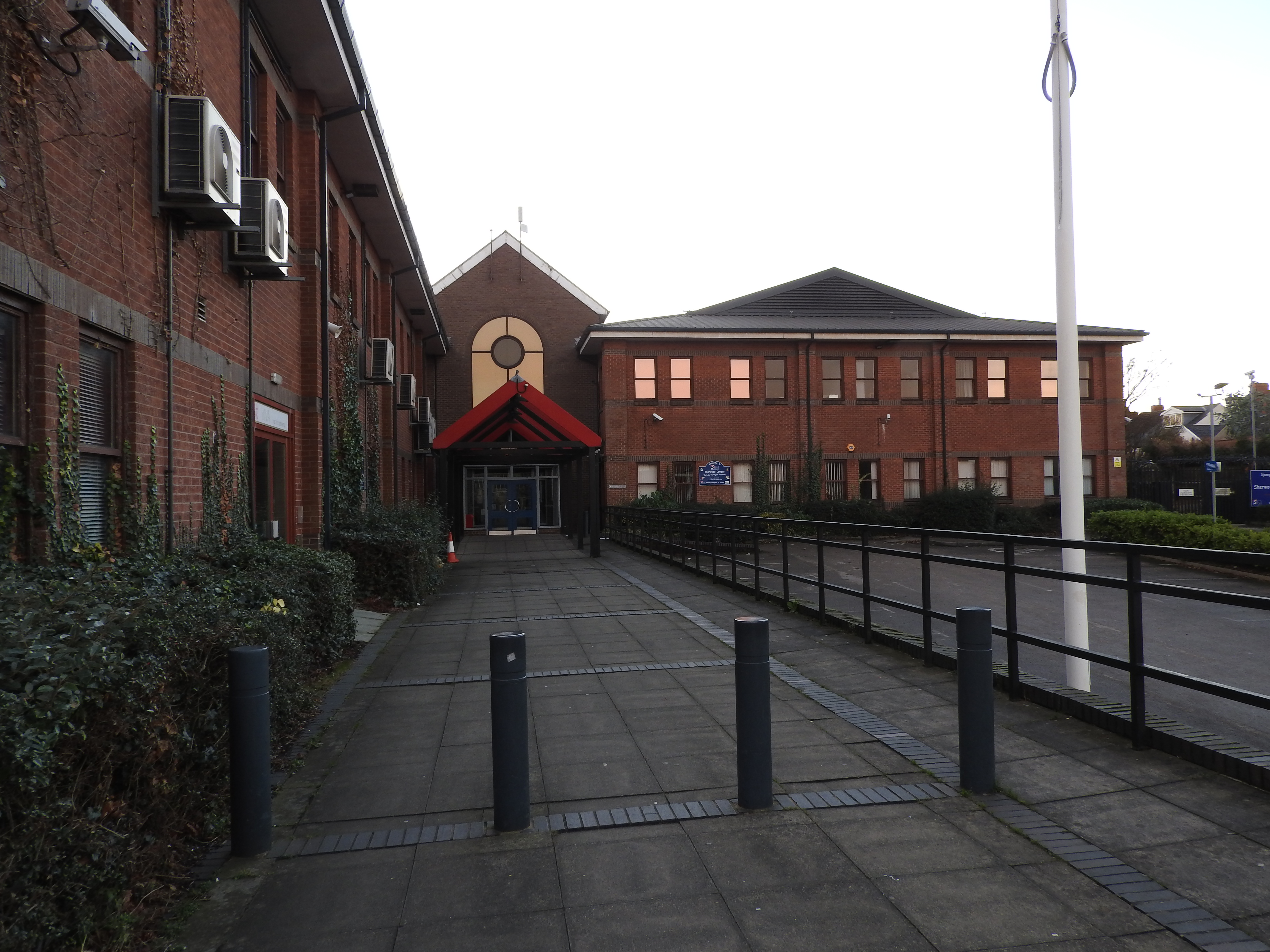 The Djanogly City Academy operates on two sites in Nottingham. The Gregory Boulevard building was designed by Foster and Partners. Attached is a Leisure Centre. The Sherwood Rise site is for primary aged children, Attached is a theatre.